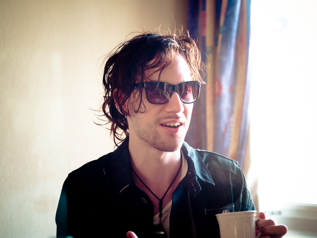 we had the most well-suited team in our chalet // Jimmy Edgar, Loops Haunt, 0=0 and I // we spent most of the Weekender together drinking Nescafe Extra Gold Instant Coffee